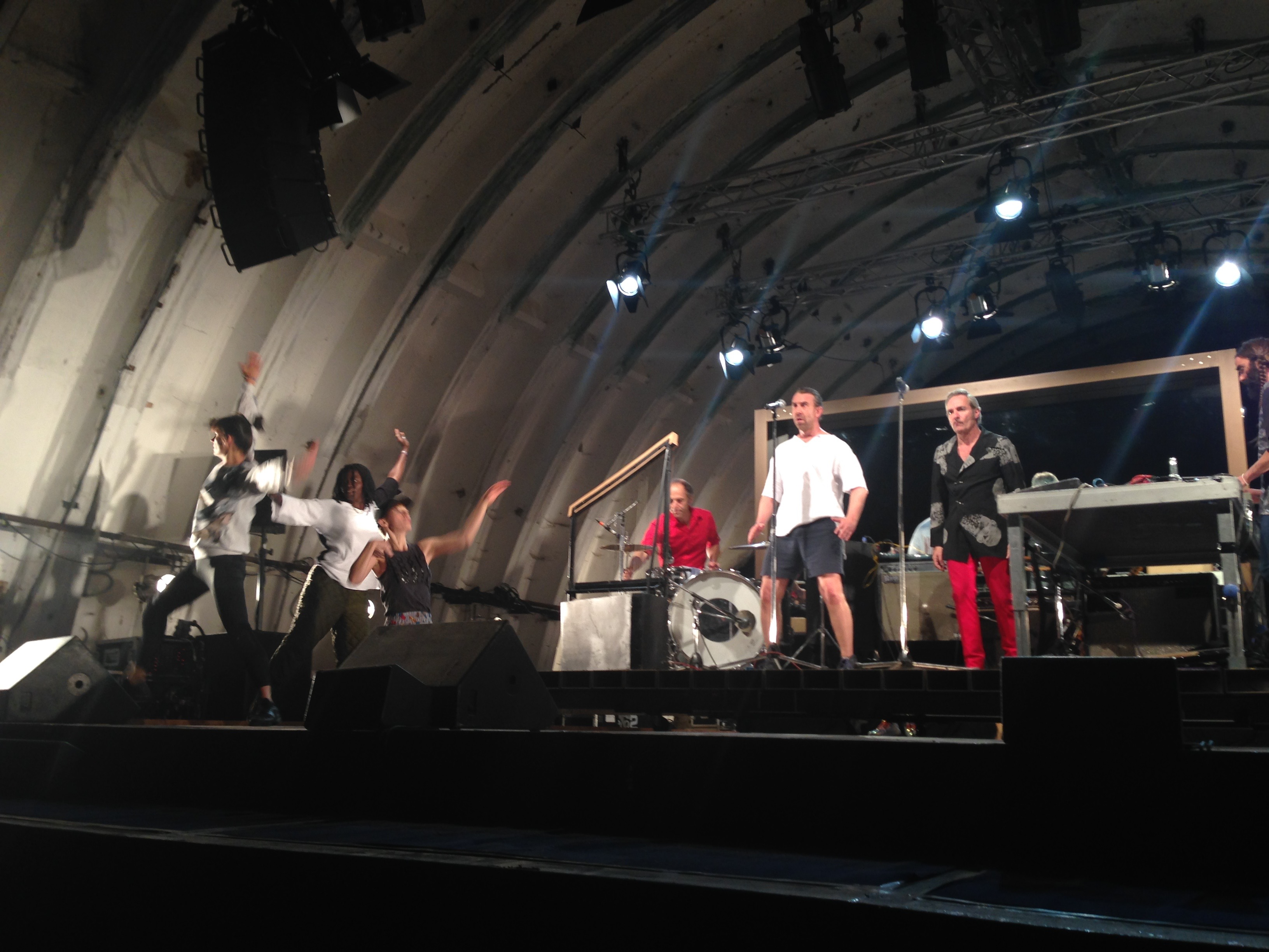 Thomas Wenzel, Hauke Heumann, Ted Gaier, Hans Unstern and others performing the piece "Not Punk, Pololo" directed by Gintersdorfer/Klaßen at 4th september 2015 in Lärz